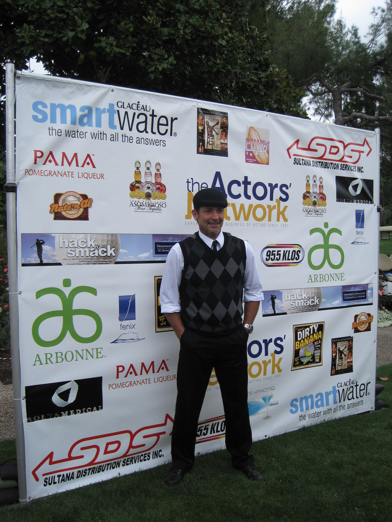 Robert Torti at the 8th Annual Hack n' Smack Celebrity Golf Tournament